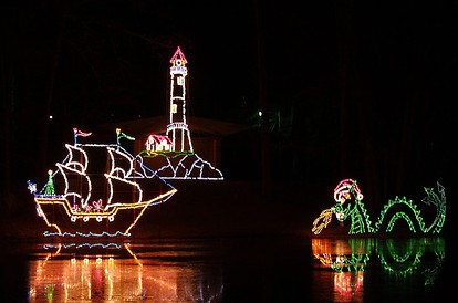 Tanglewood Festival of Lights 2002. I took this picture and release it to public domain.